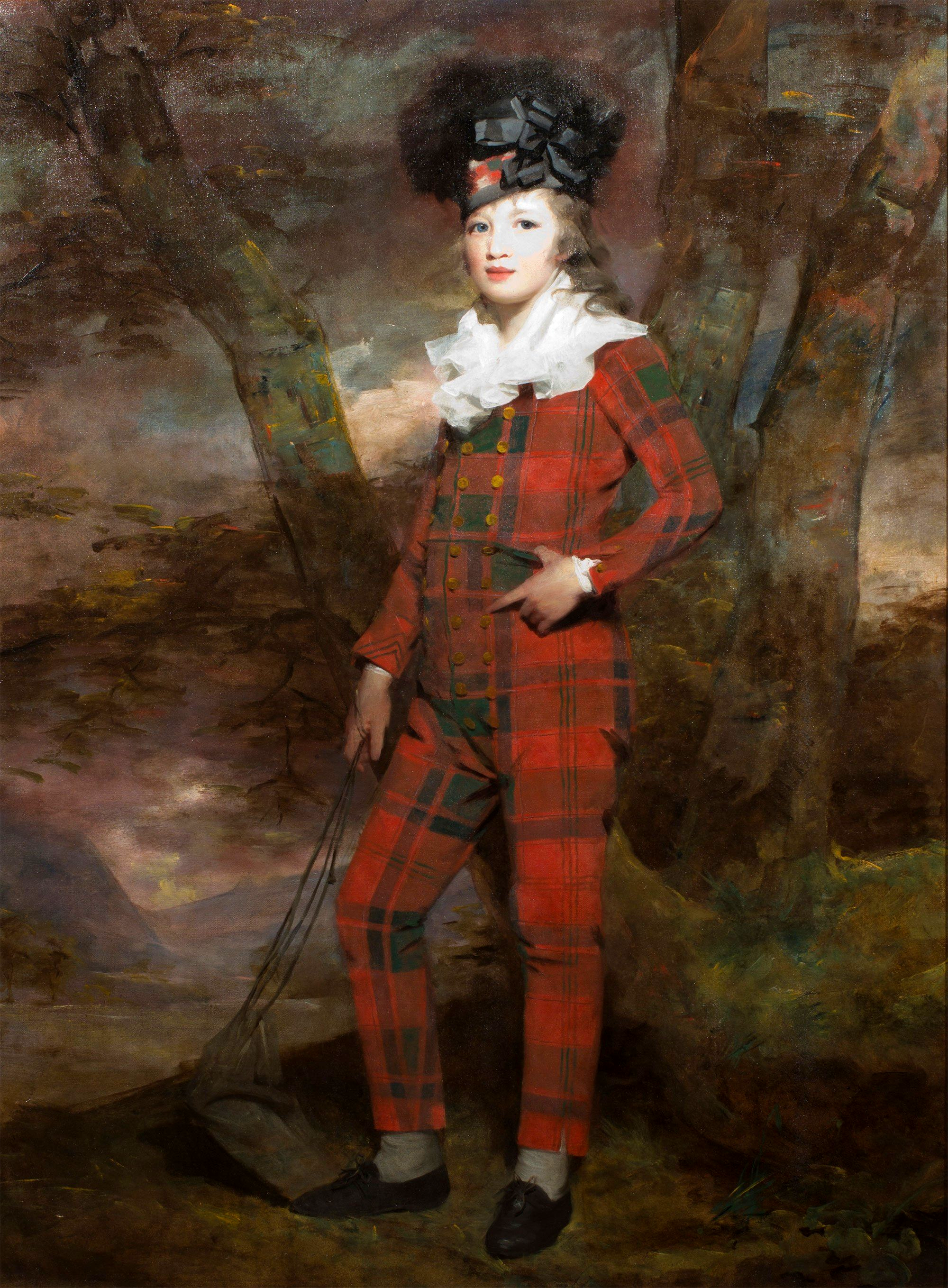 Sir Euan Murray-MacGregor, 2nd Baronet (1785–1841), by Henry Raeburn, oil on canvas, 61½ x 45½ in. (156.1 x 115.4 cm.).